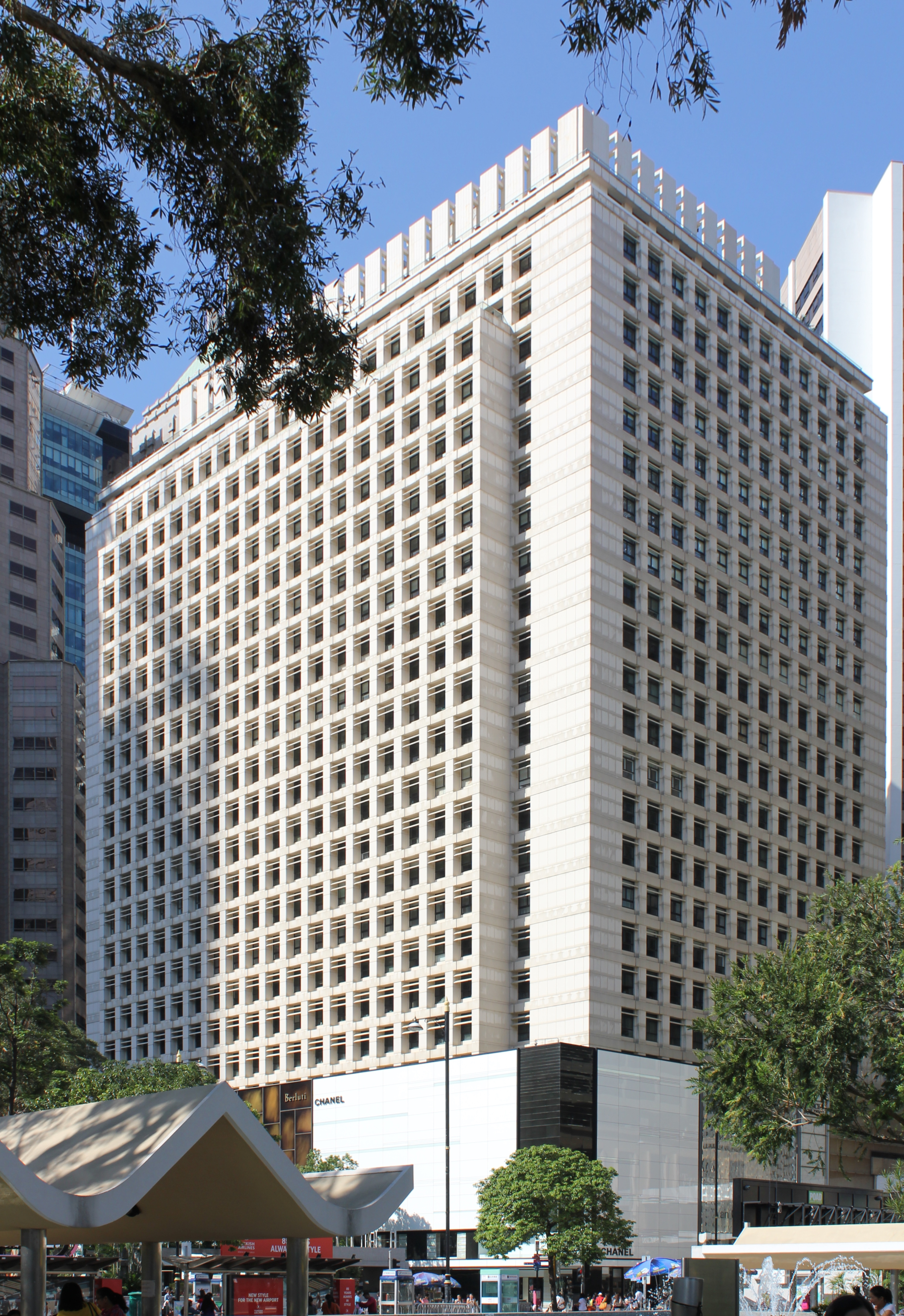 View of Prince's Building from the Statue Square in 2018